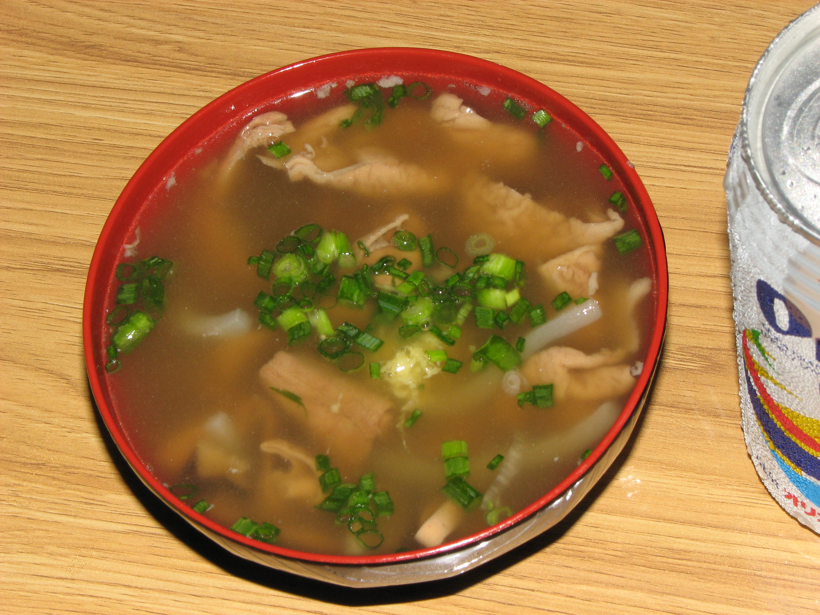 Nakami-Jiru(tripe stew, Okinawa style)